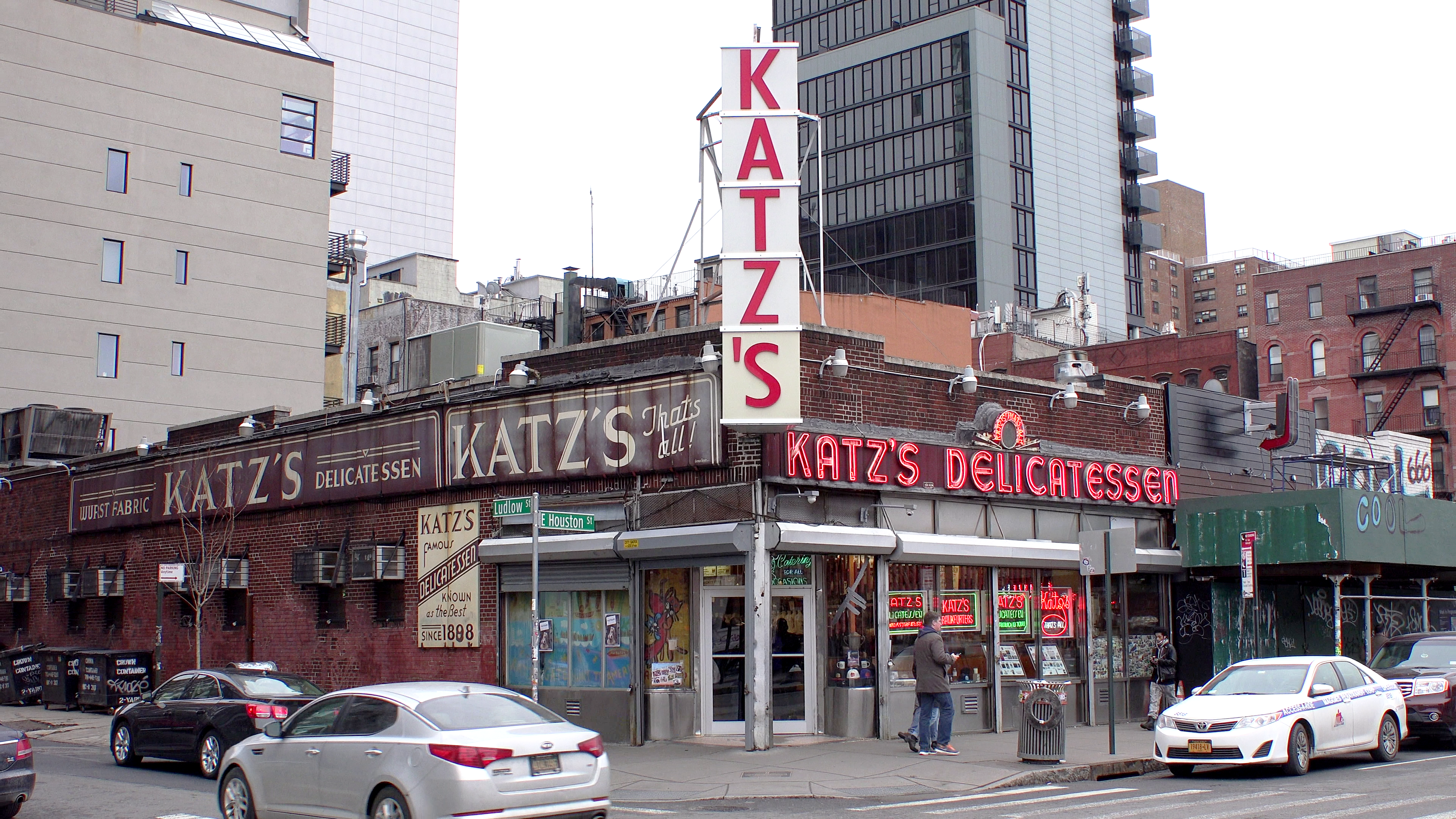 Katz' diner, slightly further shot, in New York City